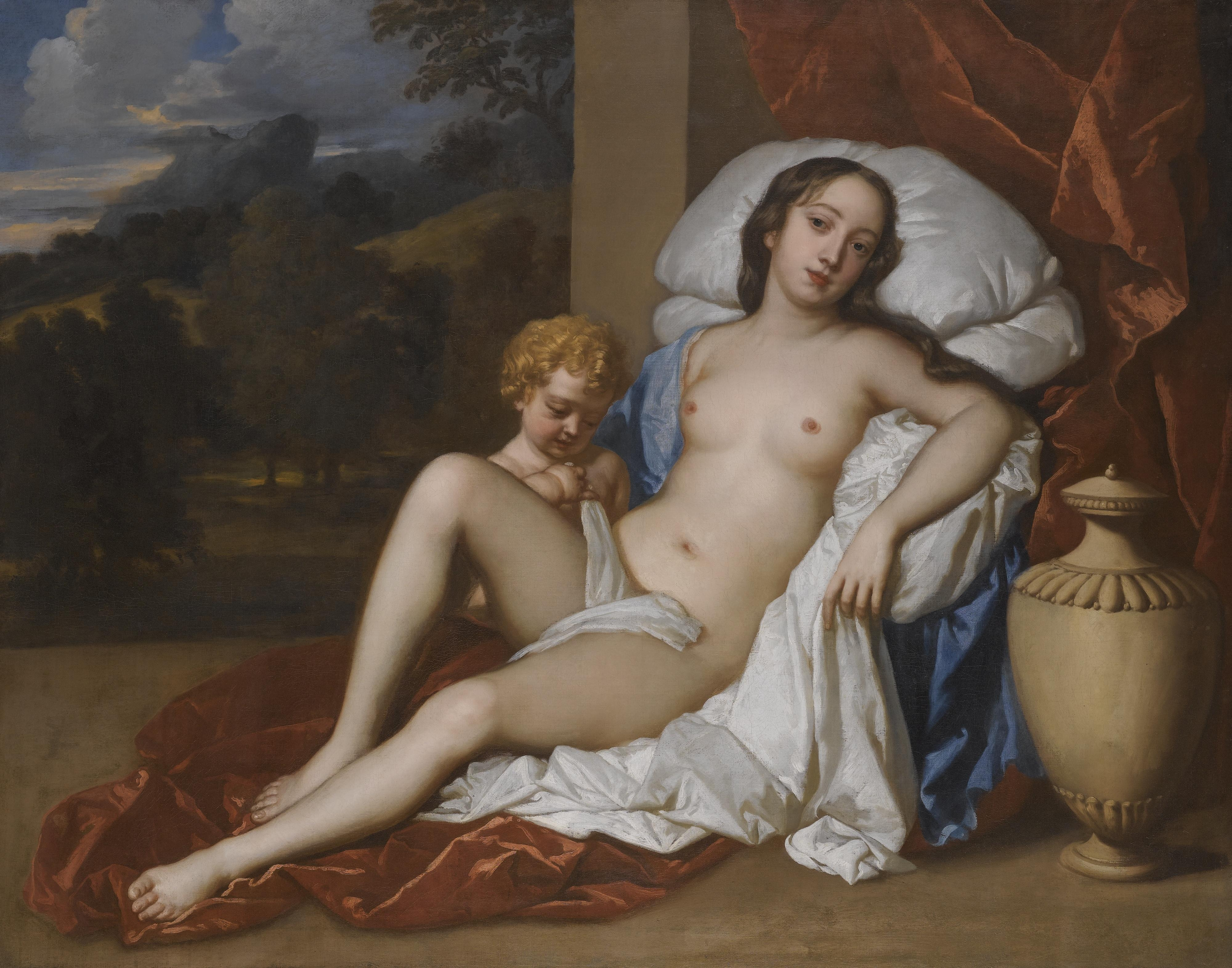 Sir Peter Lely Portrait of a young woman and child, as Venus and Cupid Provenance: Possibly King Charles II (1630-1685); Possibly King James II (1633-1701); Possibly taken from Whitehall by his son-in-law, John Sheffield, 1st Duke of Buckingham and Normanby (1647-1721), husband of Katherine Darnley, King James II's natural daughter by Catherine Sedley, and recorded at Buckingham House, Middlesex, by G. Vertue in an inventory of 1746; Presumably either sold by the Duke's natural son, Sir John Sheffield, 1st Bt. (c. 1706-1774), on the sale of Buckingham House to King George III, or removed to Normanby Hall or another residence; Possibly purchased by William Lowther, 2nd Earl of Lonsdale (1787-1872), and by descent to George Henry, 4th Earl of Lonsdale (1855-1882), by 1879; Lowther Castle Sale; Lowther Castle, Wyatt, 30 April 1947, as a portrait of Nell Gywn; G. Houghton-Brown; his sale, London, Sotheby's, 8 February 1950, lot 76, as a portrait of Barbara Villiers, Duchess of Cleveland (when purchased by Denys Bower); The Sale of the Trustees of the Denys Eyre Bower Bequest, removed from Chiddingstone Castle in Kent, London, Christie's, 5th July 2007, lot 57 (bt. for £1,588,000 by the present owner)[1] Dimensions: 48.5 X 61.5 in (123.19 X 156.21 cm) Medium: oil on canvas